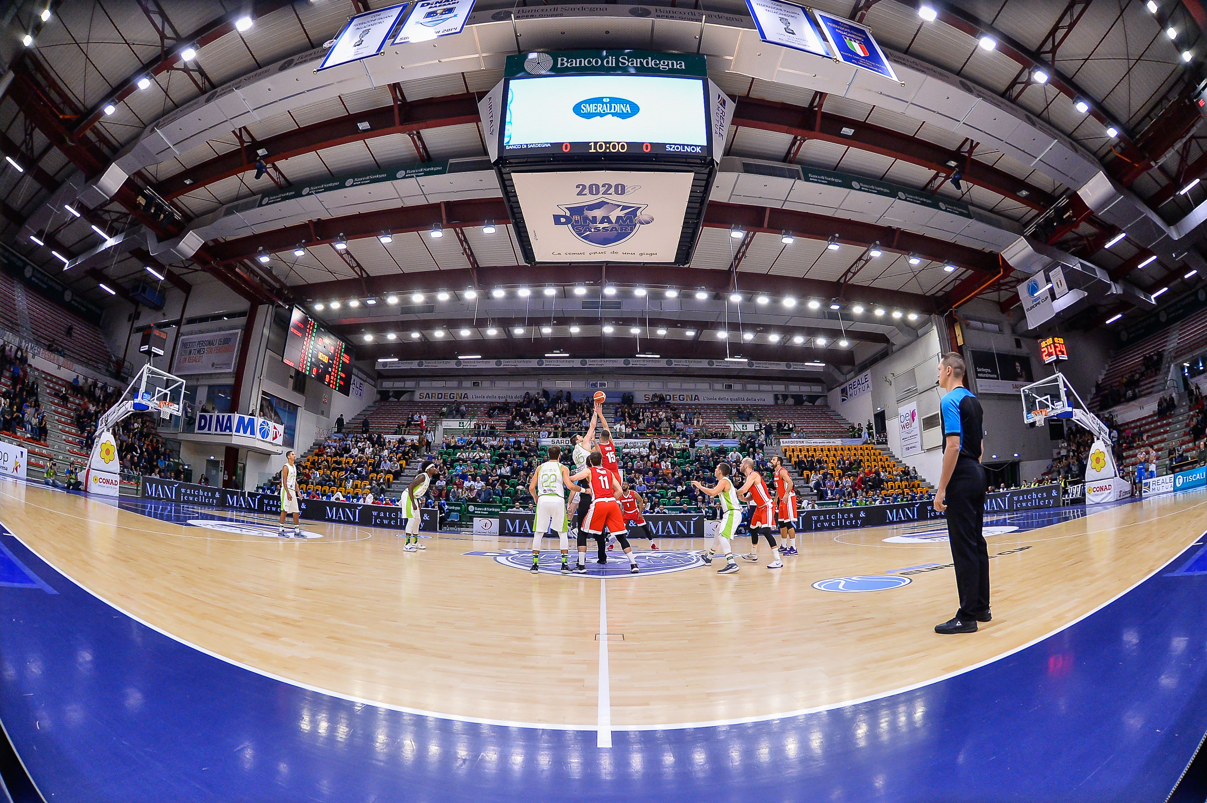 Palla a due, PalaSerradimigni Banco di Sardegna Dinamo Sassari - Szolnoki Olaj FIBA Europe Cup 2018-2019 Gruppo H Sassari, 24/10/2018 Foto L.Canu / Ciamillo-Castoria